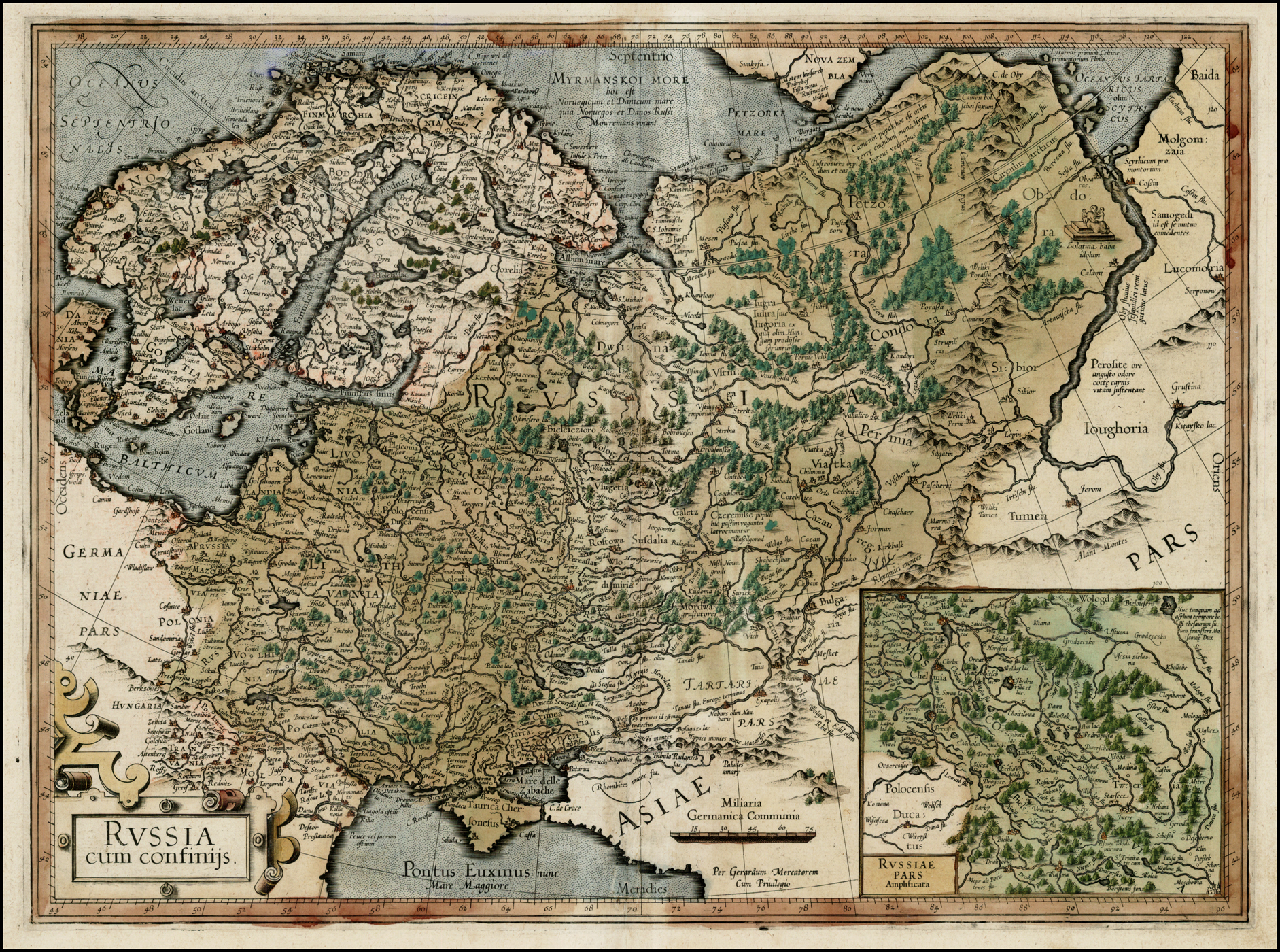 Map of Eastern Europe by Gerard Mercator in 1595.